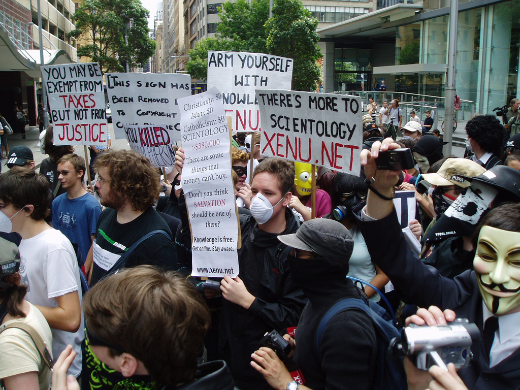 Olympus digital camera (Project Chanology protest in Sydney, Australia)COS Raid @ Sydney